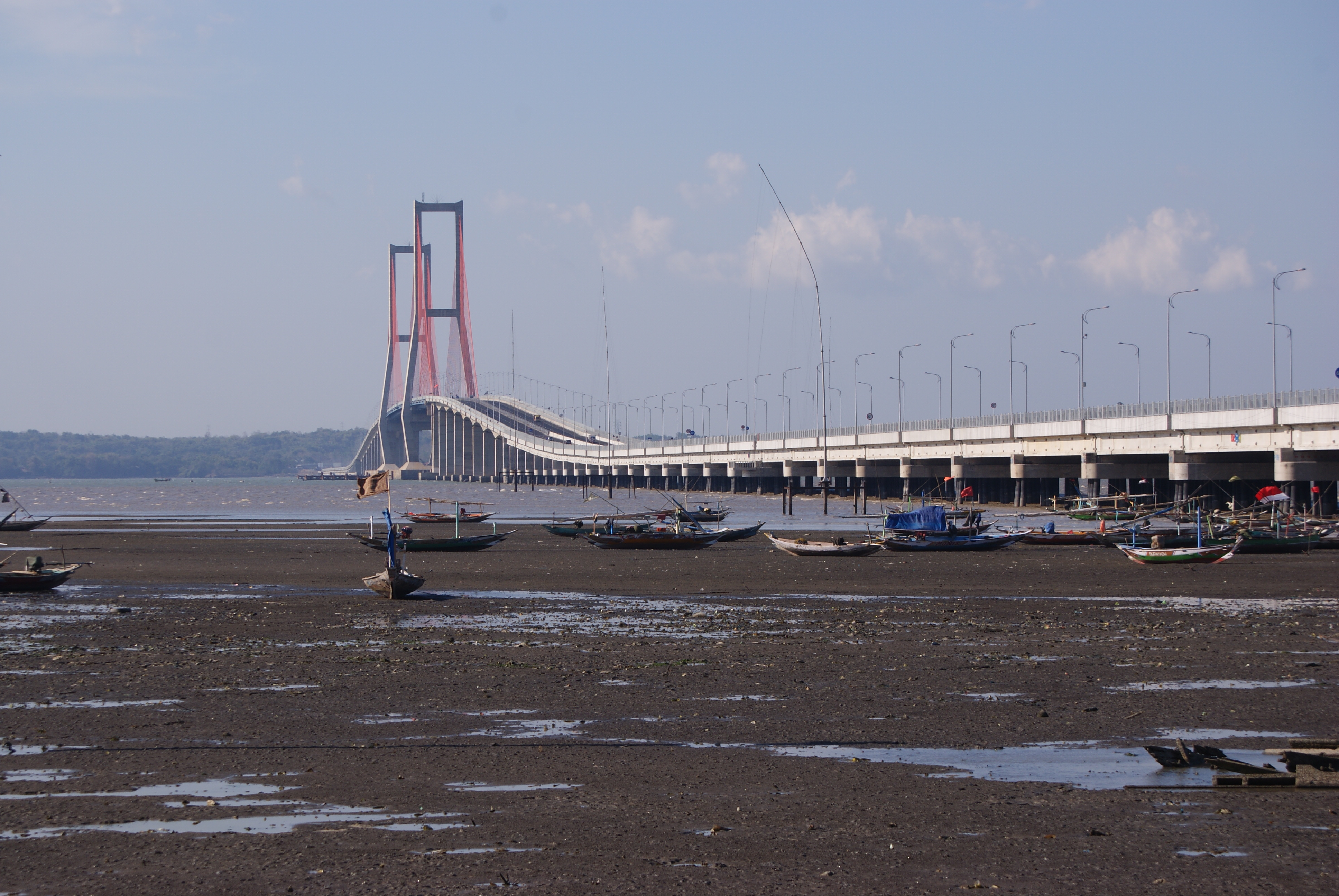 Suramadu Bridge Surabaya side